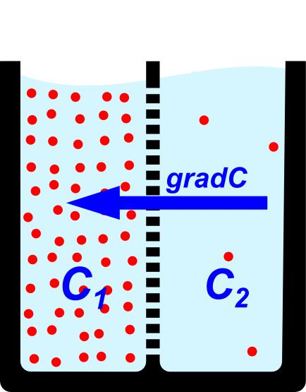 ConcentrationGradient